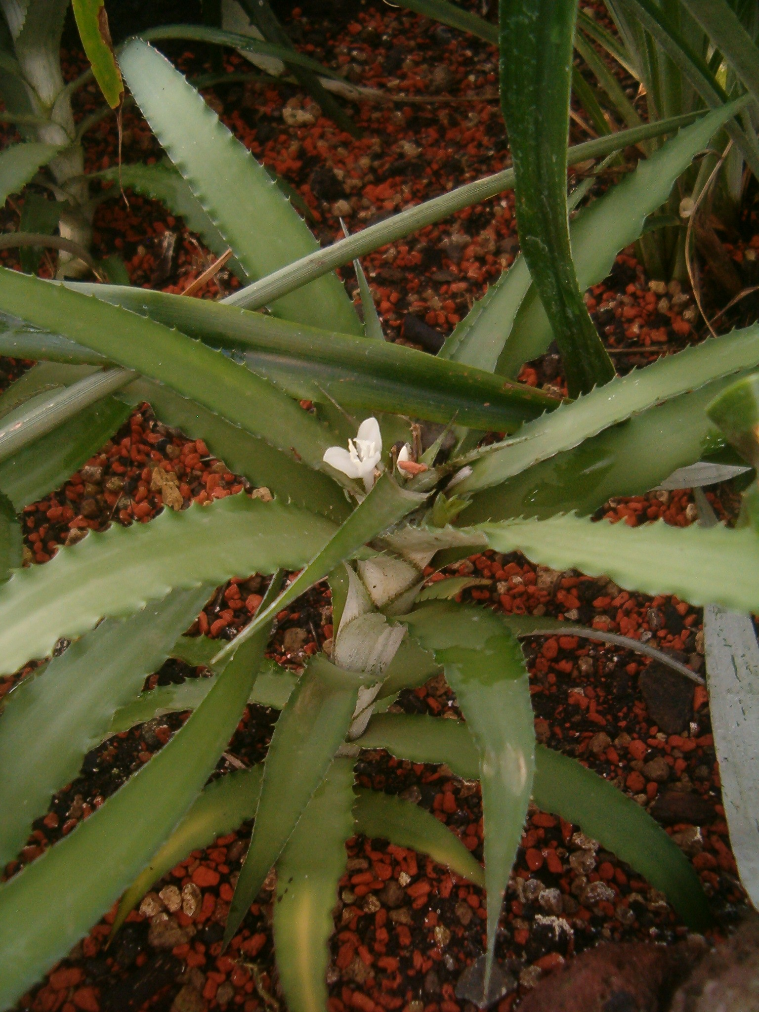 At Botanical Gardens Berlin-Dahlem Species Cryptanthus bahinanus